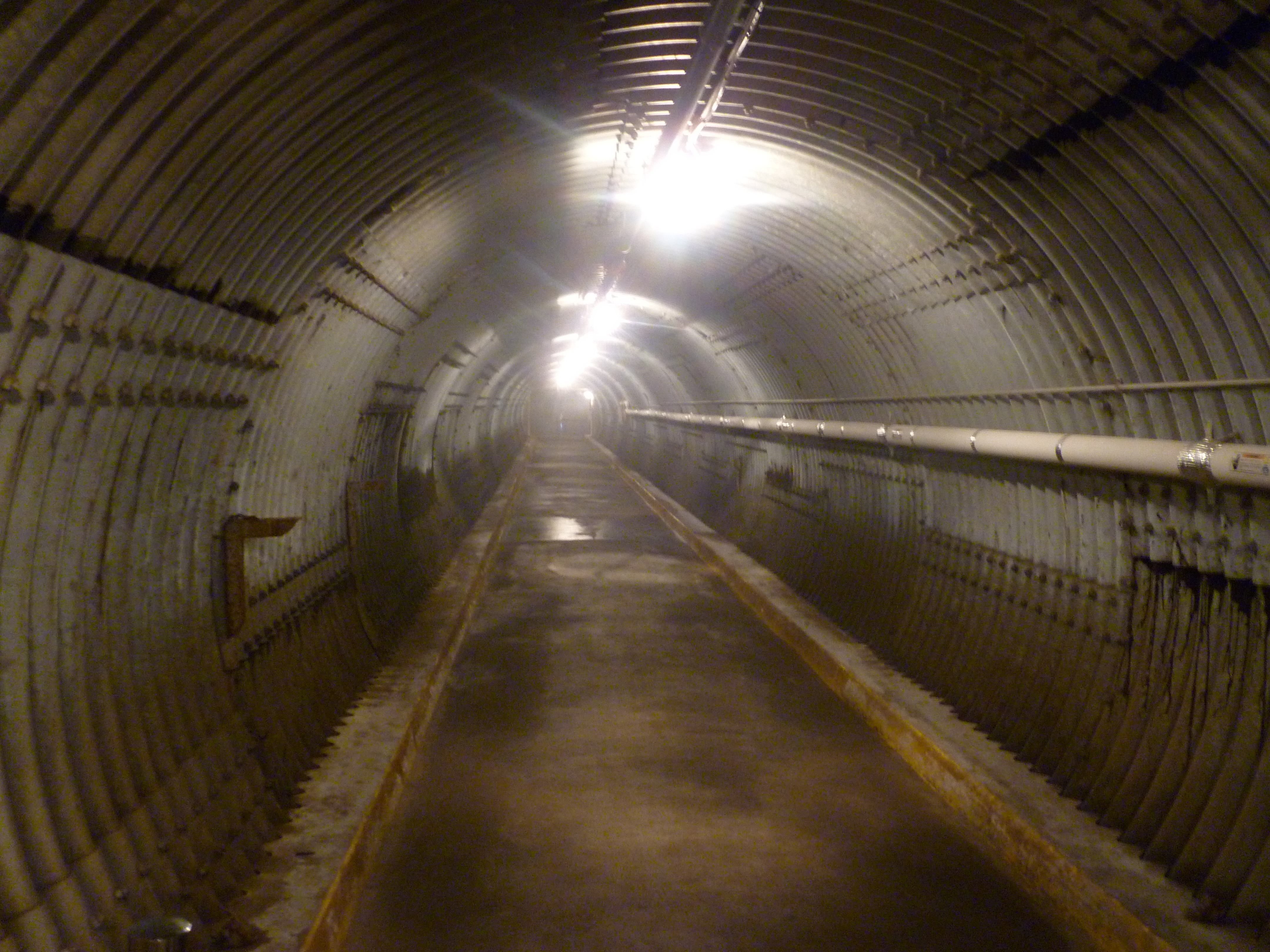 The actual entrance to the bunker is perpendicular to tunnel.